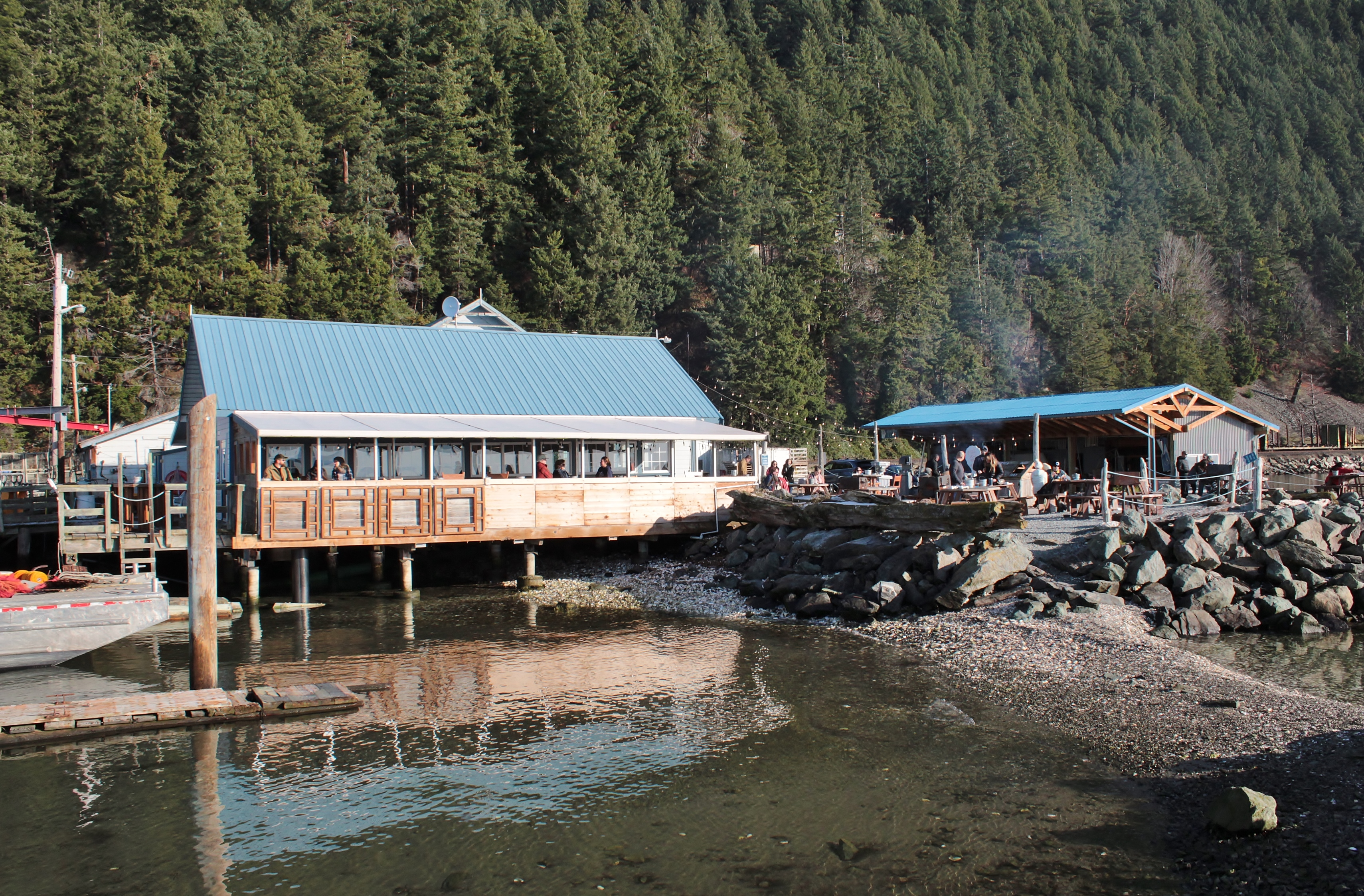 An oyster farm from the Taylor Shellfish Company in Samish, Washington